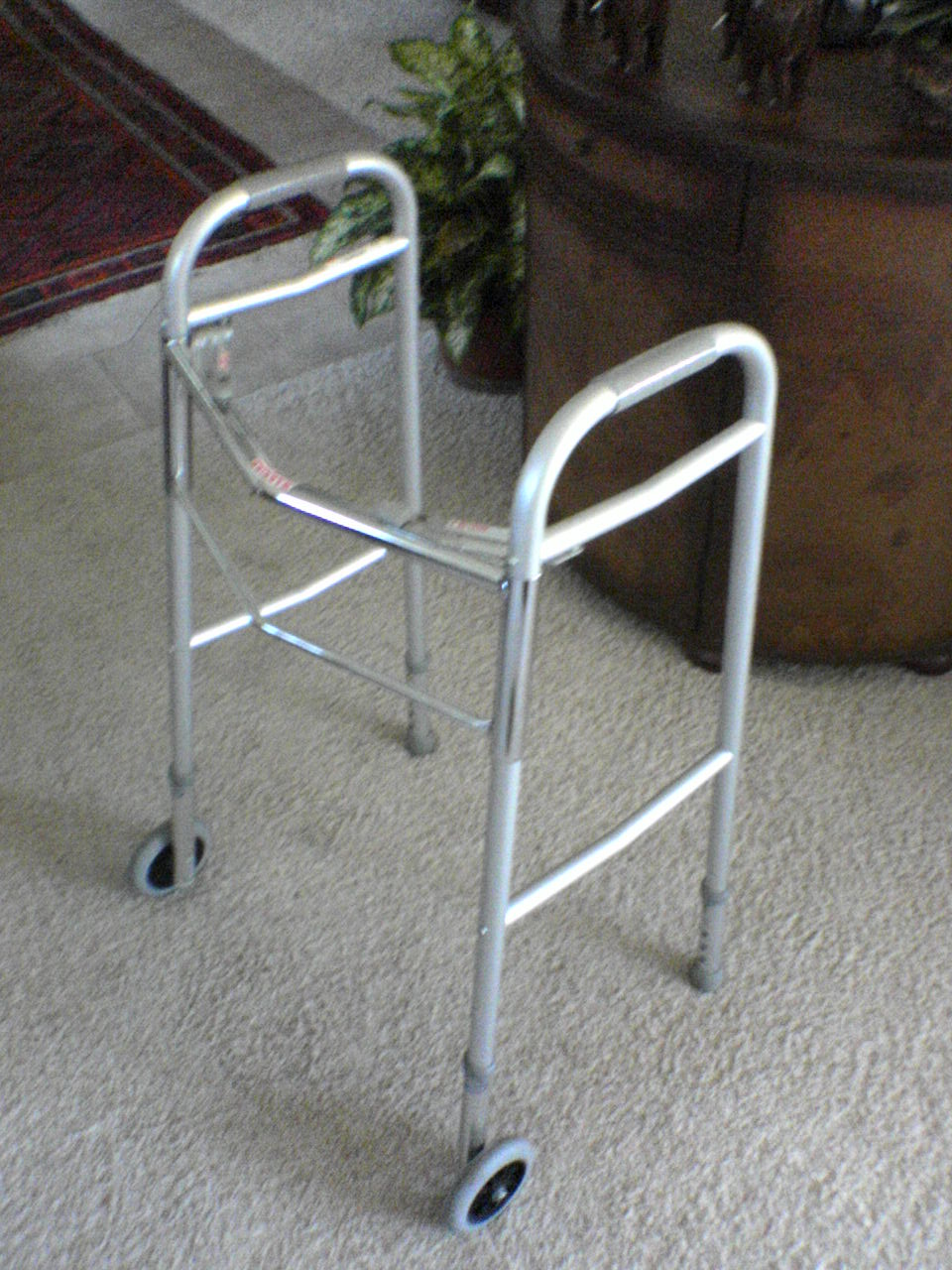 Photo of modern-day Walker taken January 23, 2006. Photographer releases all rights worldwide.